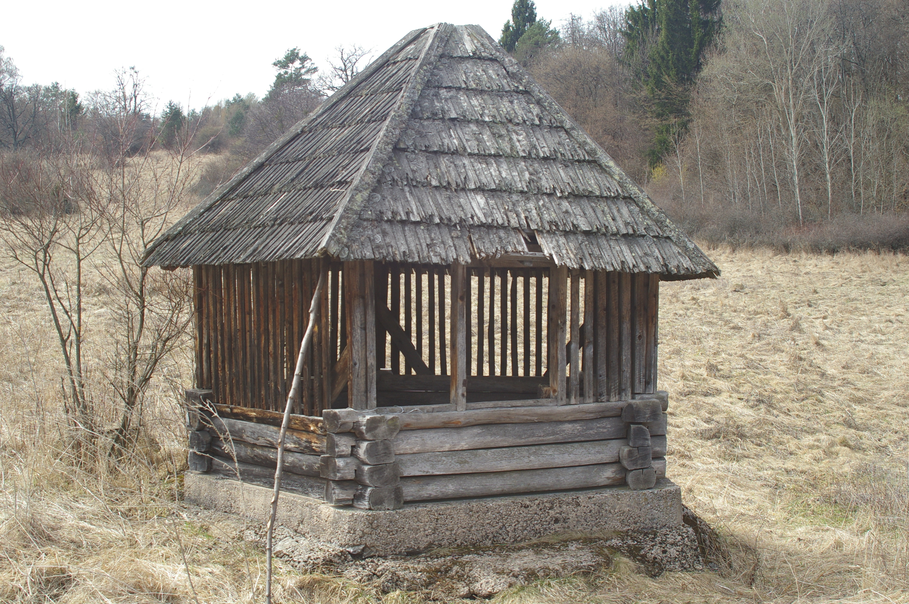 Old well on Silická planina